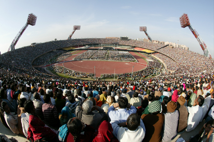 [More than 130,000 people came to hear Prem Rawat speak at Jawaharlal Nehru Stadium] in New Delhi, India (2004)